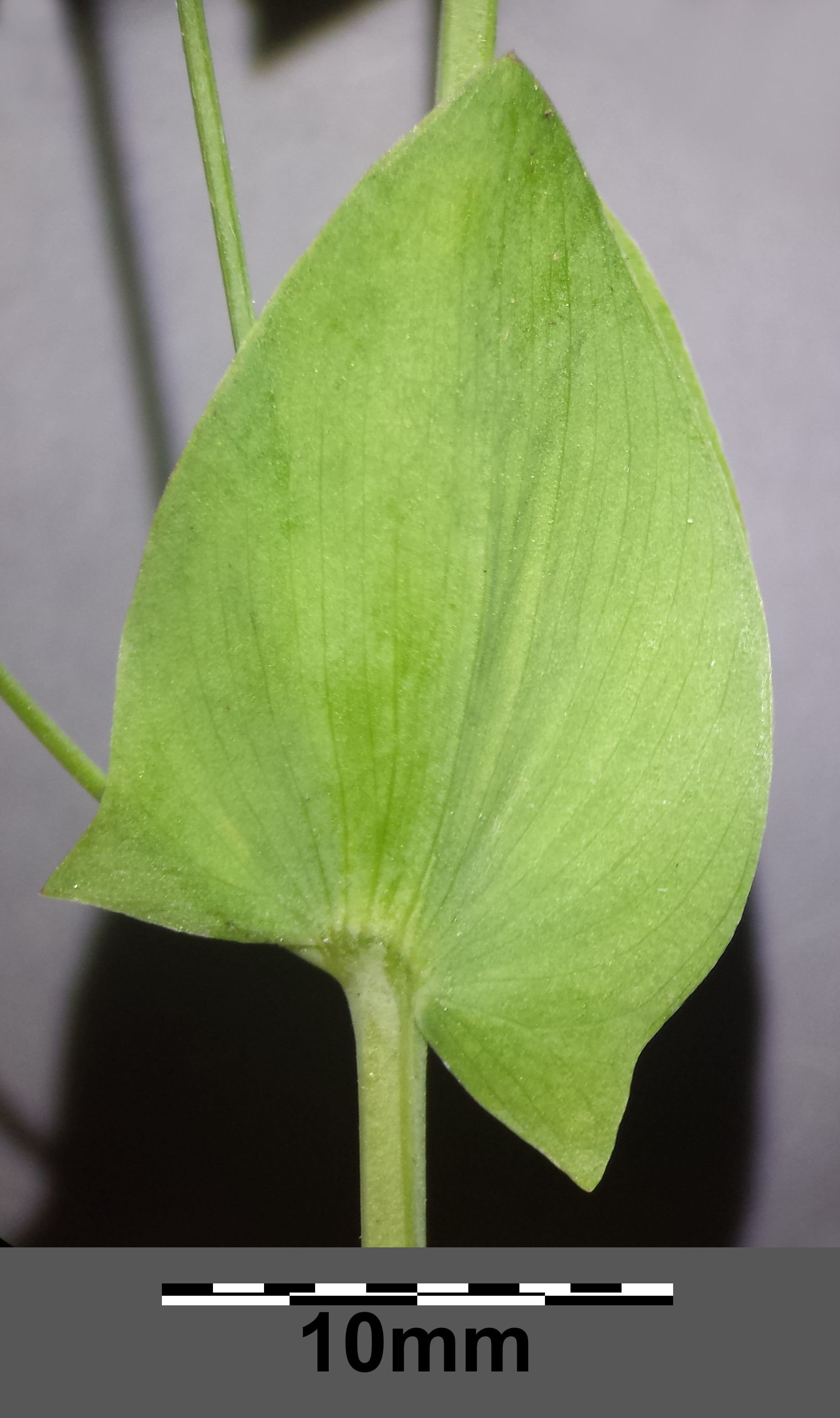 Stipule Taxonym: Lathyrus aphaca ss Fischer et al. EfÖLS 2008 ISBN 978-3-85474-187-9 Location: Oberhohenstein northwest of Limberg, district Hollabrunn, Lower Austria - ca. 340 m a.s.l. Habitat: semi-dry grassland